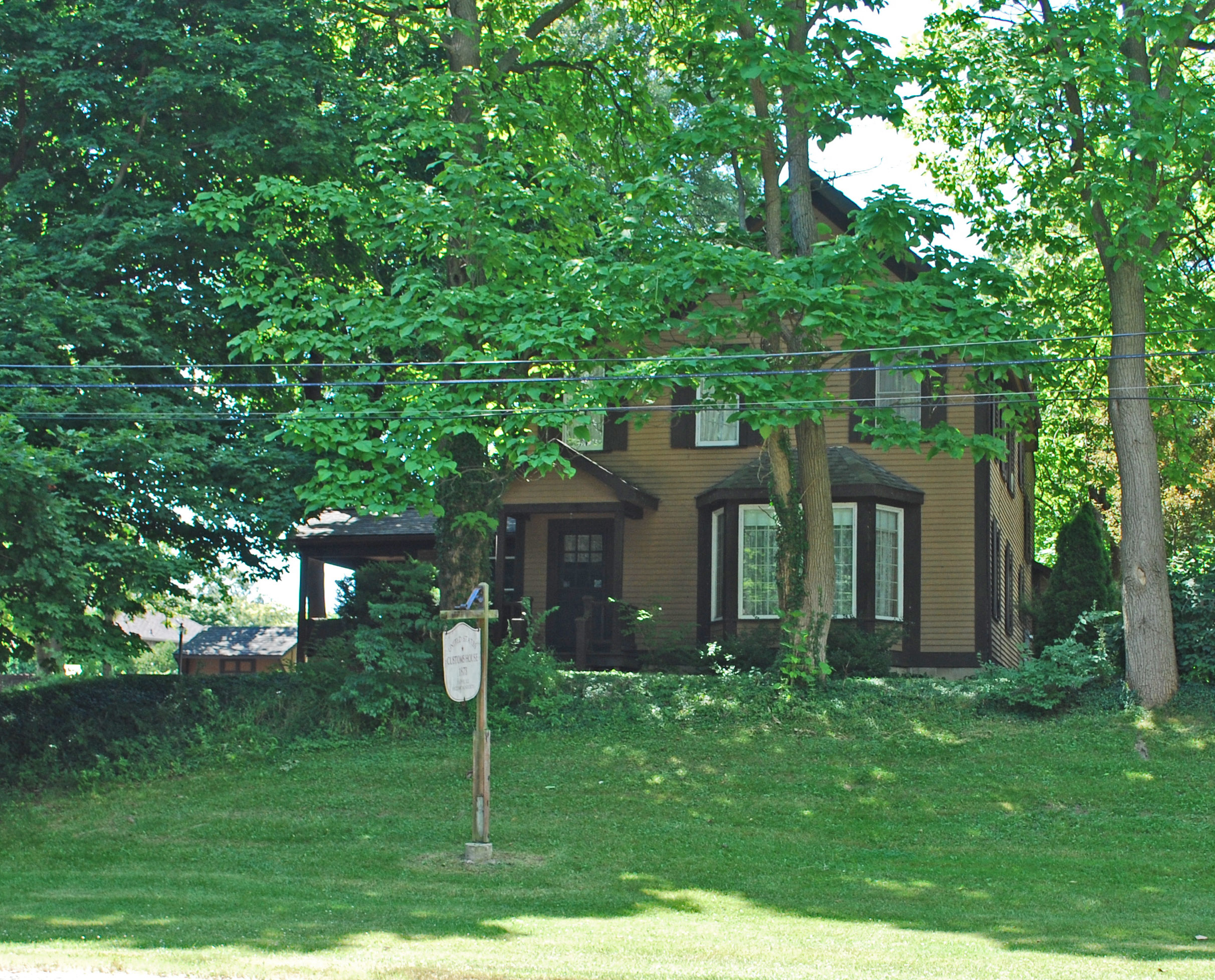 Customs House, East River Rd Historic District, Grosse Ile MI